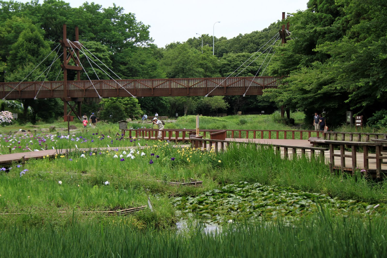 Izuminomori Park.